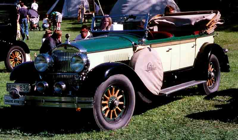 Cadillac Series 314 Touring 1927